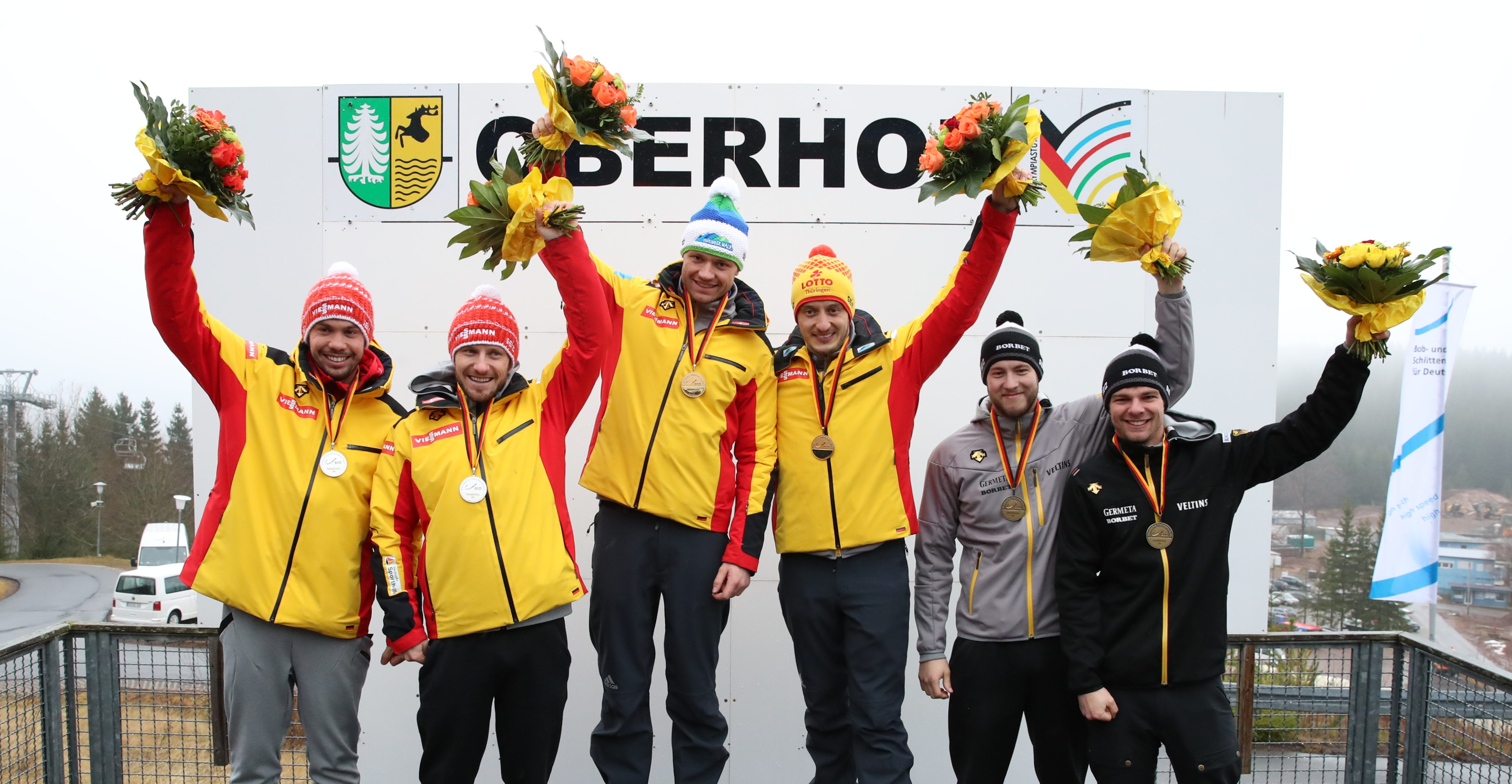 Victory Ceremony at the German Luge Championships 2019 in Oberhof